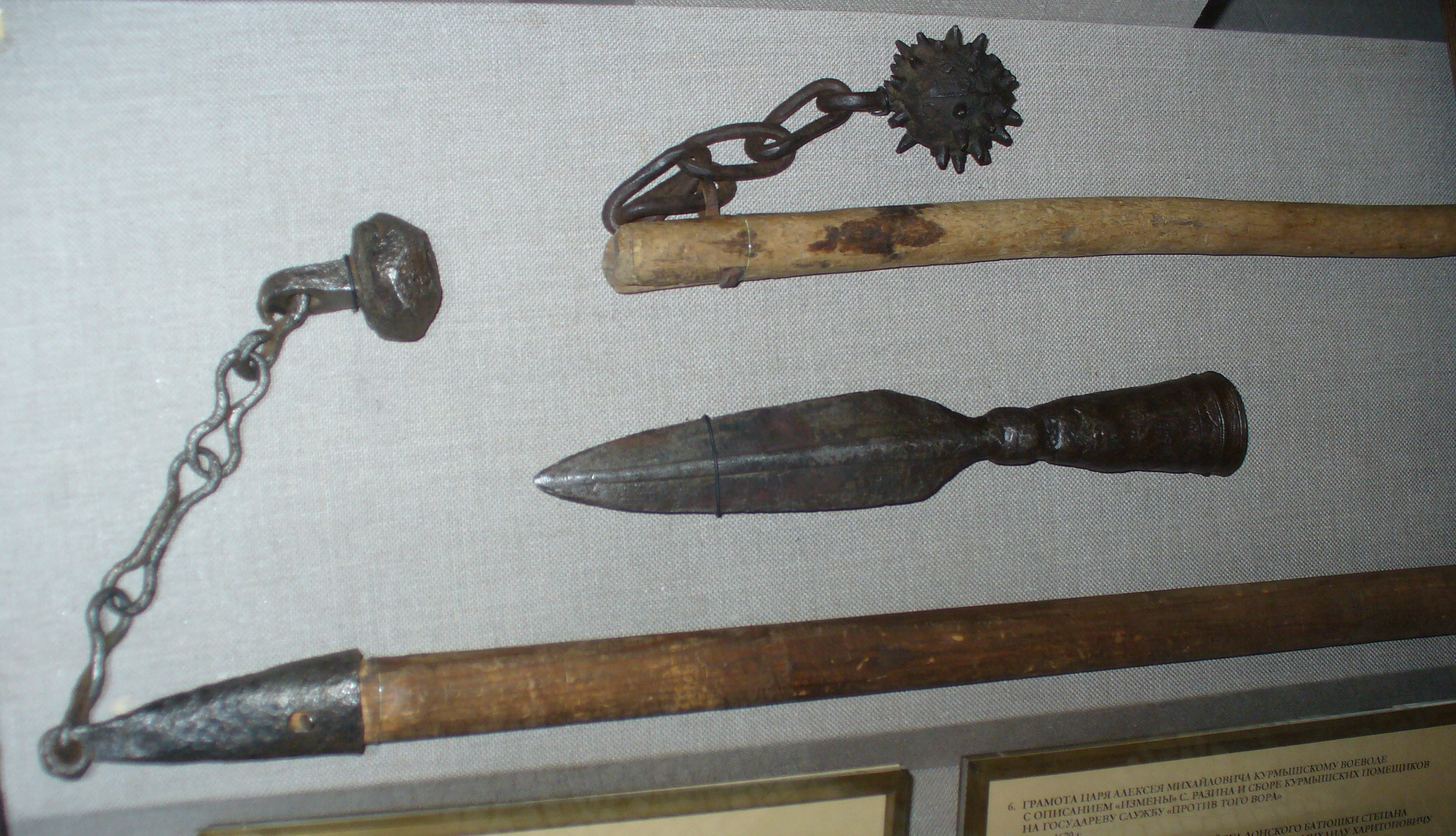 Flails, Russia, 17 cent.